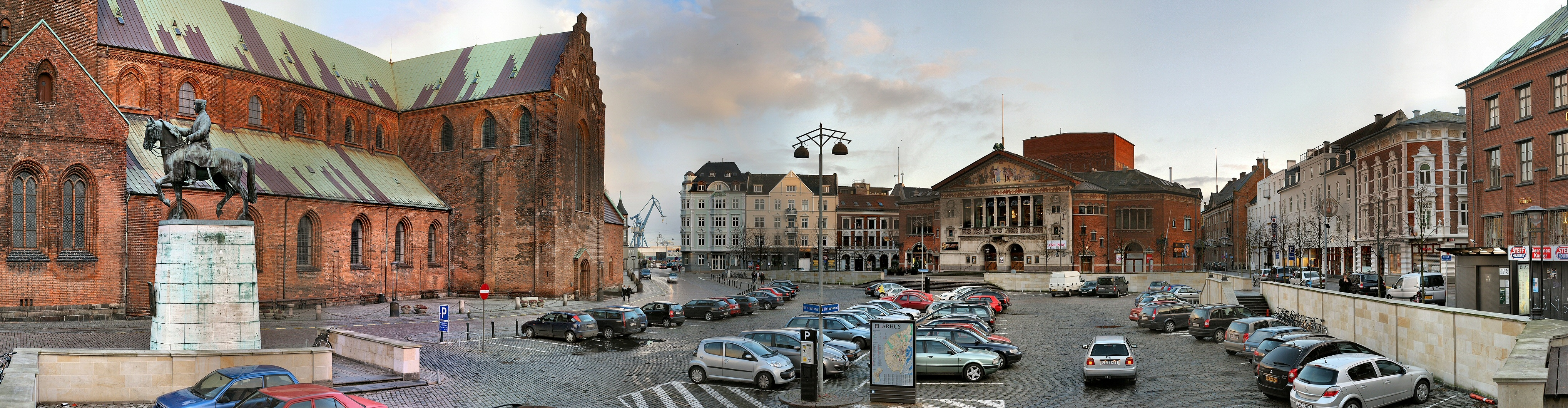 Bispetorv (Town square) in Aarhus